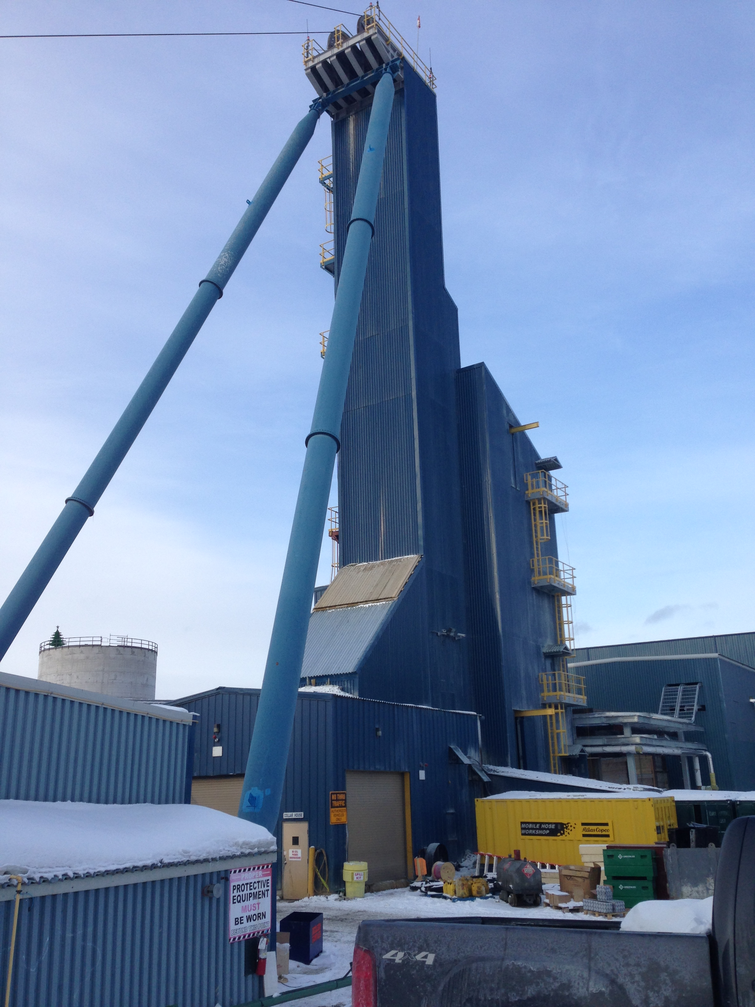 The headframe at Rubicon Minerals Phoenix Gold Project in Red Lake, Ontario